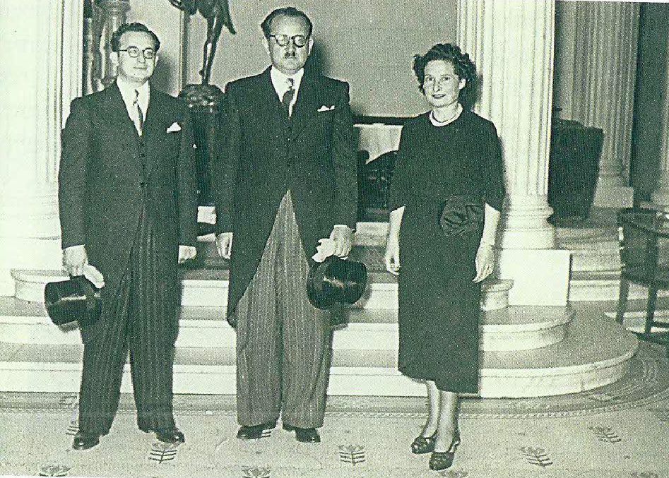 ISRAEL AMB. TO URUGUAY YAACOV ZUR WITH ROVING DIPLOMATIC ENVOY TO SOUTH AMERICA YITZHAK NAVON (L) AND EMBASSY SECRETARY.